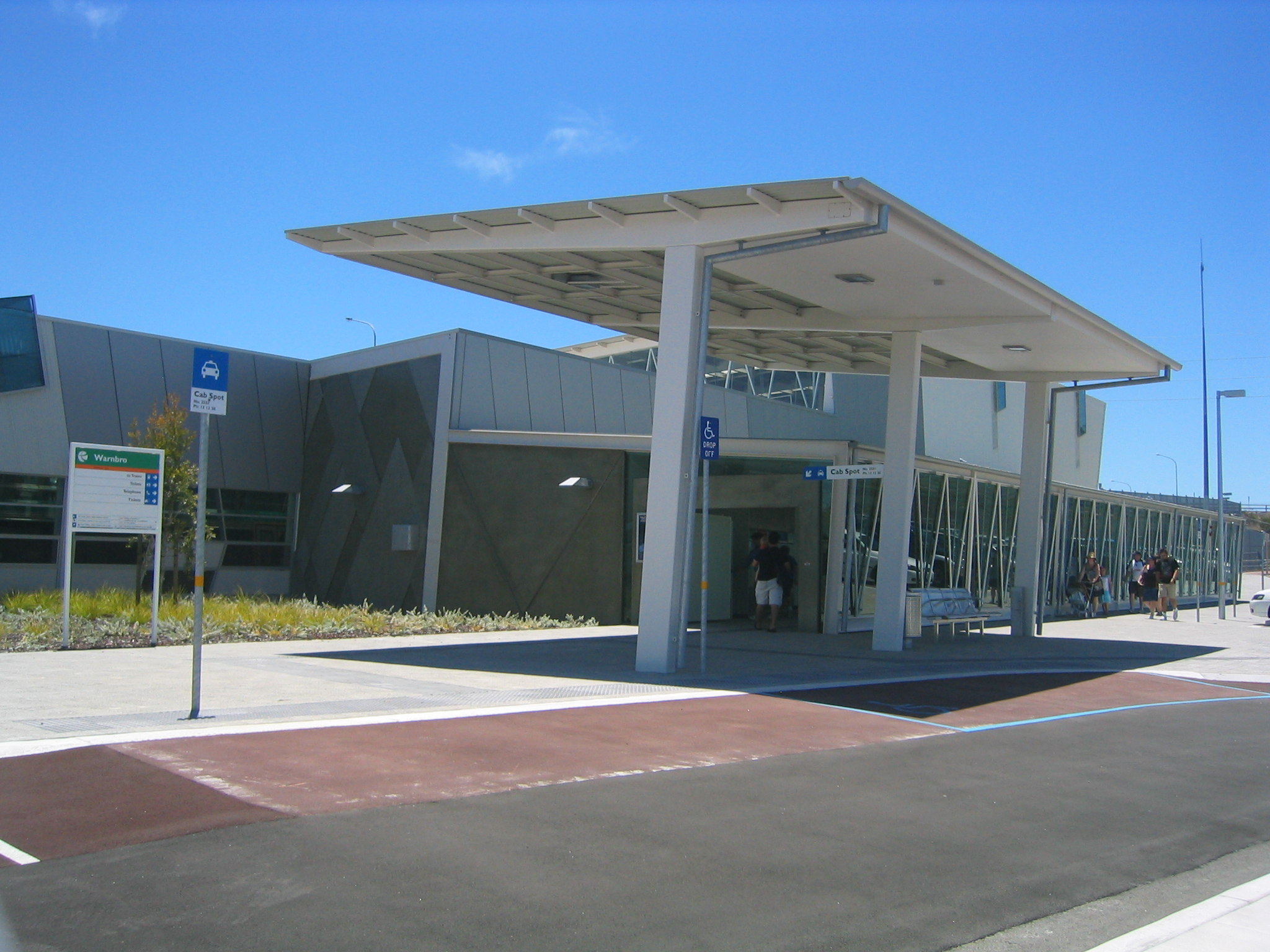 The entrance of Warnbro Station.